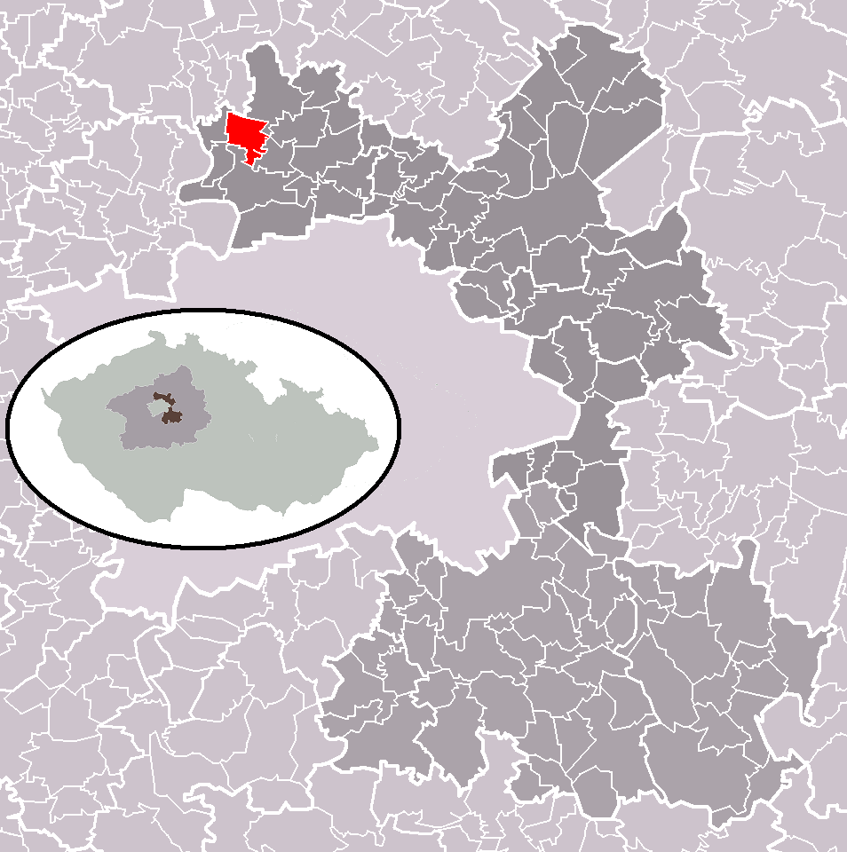 Location of Vodochody municipality within Prague-East District and administrative area of Brandýs nad Labem-Stará Boleslav as a Municipality with Extended Competence.